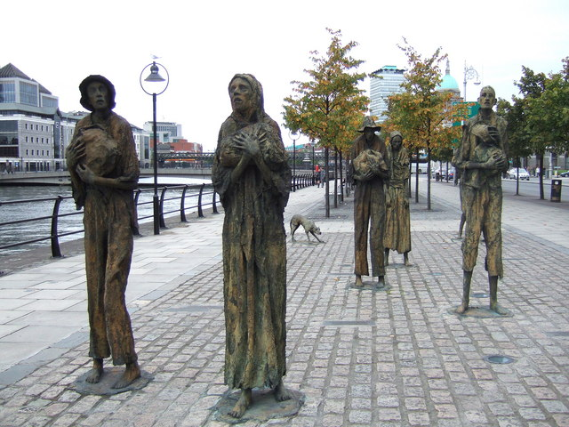 Famine memorial by the Liffey Close by the monumental architecture of the Custom House and the sleek new office buildings around it, this larger-than-lifesize troop of gaunt bronze figures creates a big impact. It memorializes the starving people who made their way to the quayside here to seek salvation overseas during the Great Hunger.